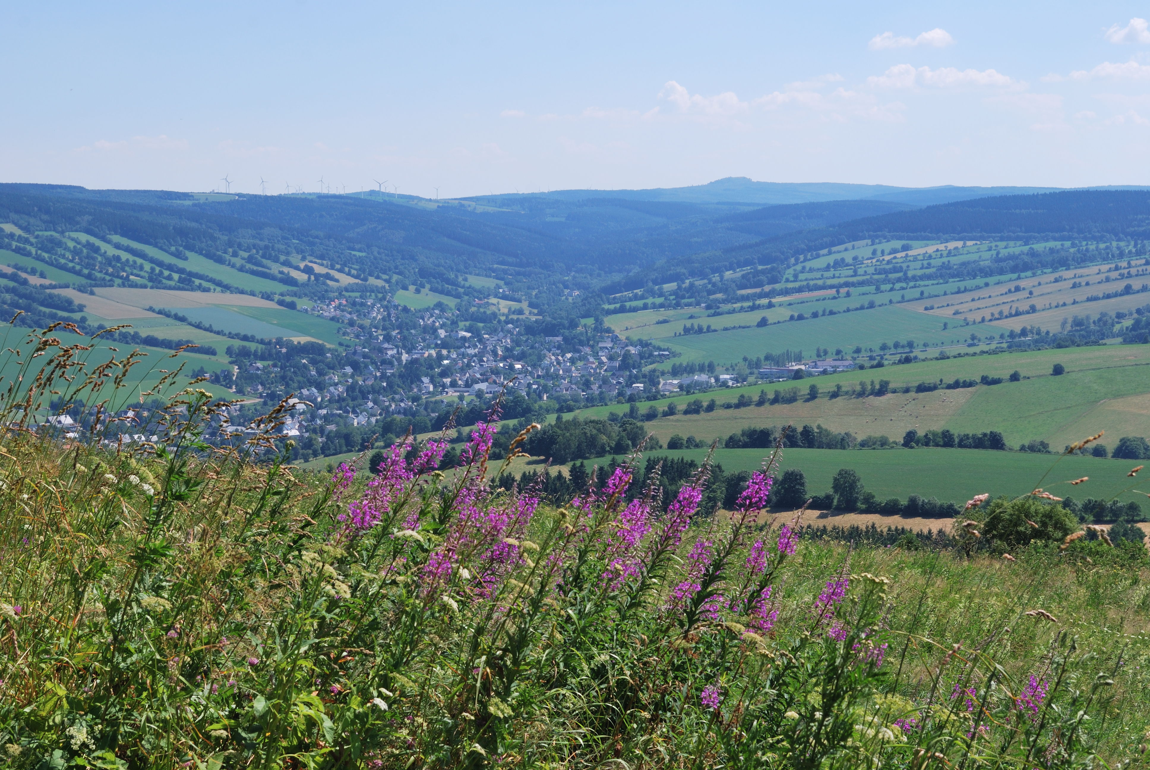 View of Königswalde from the Pöhlberg, Saxony in Germany.